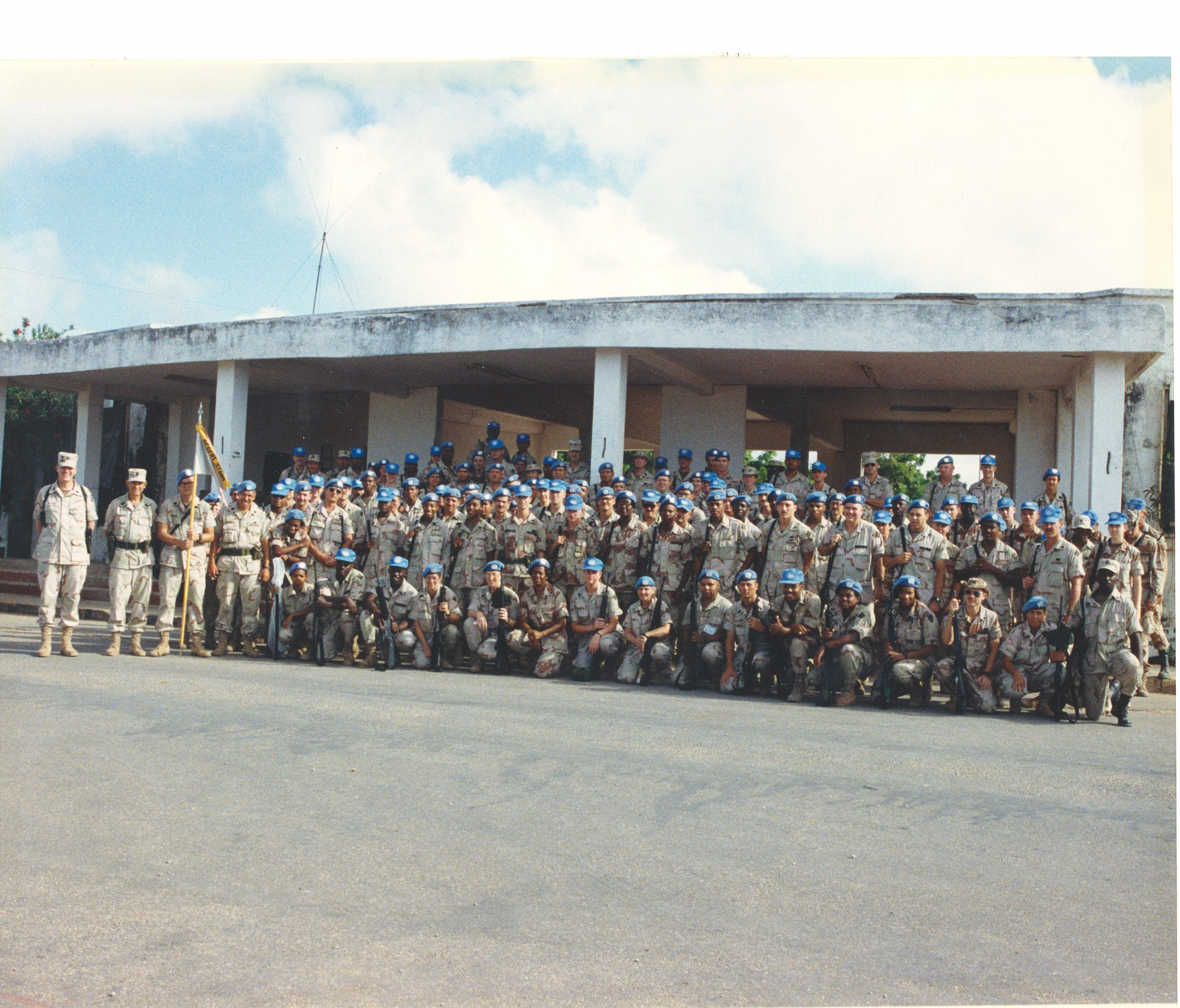 Group Photo of the Headquarters staff, 43rd Corps Support Group (now 43rd Sustainment Brigade).